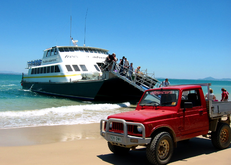 Passengers disembark from the Freedom Fast Cat directly on to Fisherman's beach at Great Keppel Island.